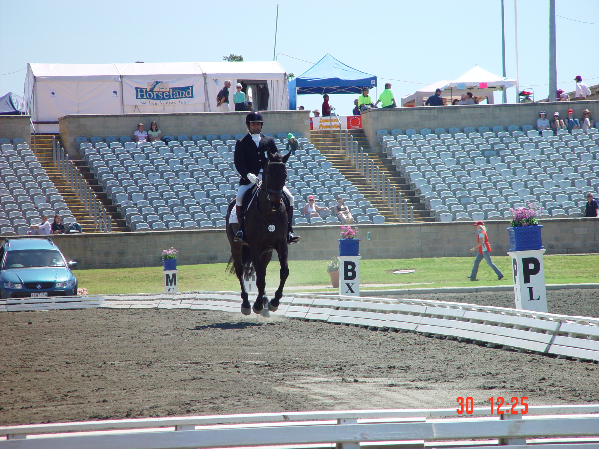 Sydney Olympic Stadium